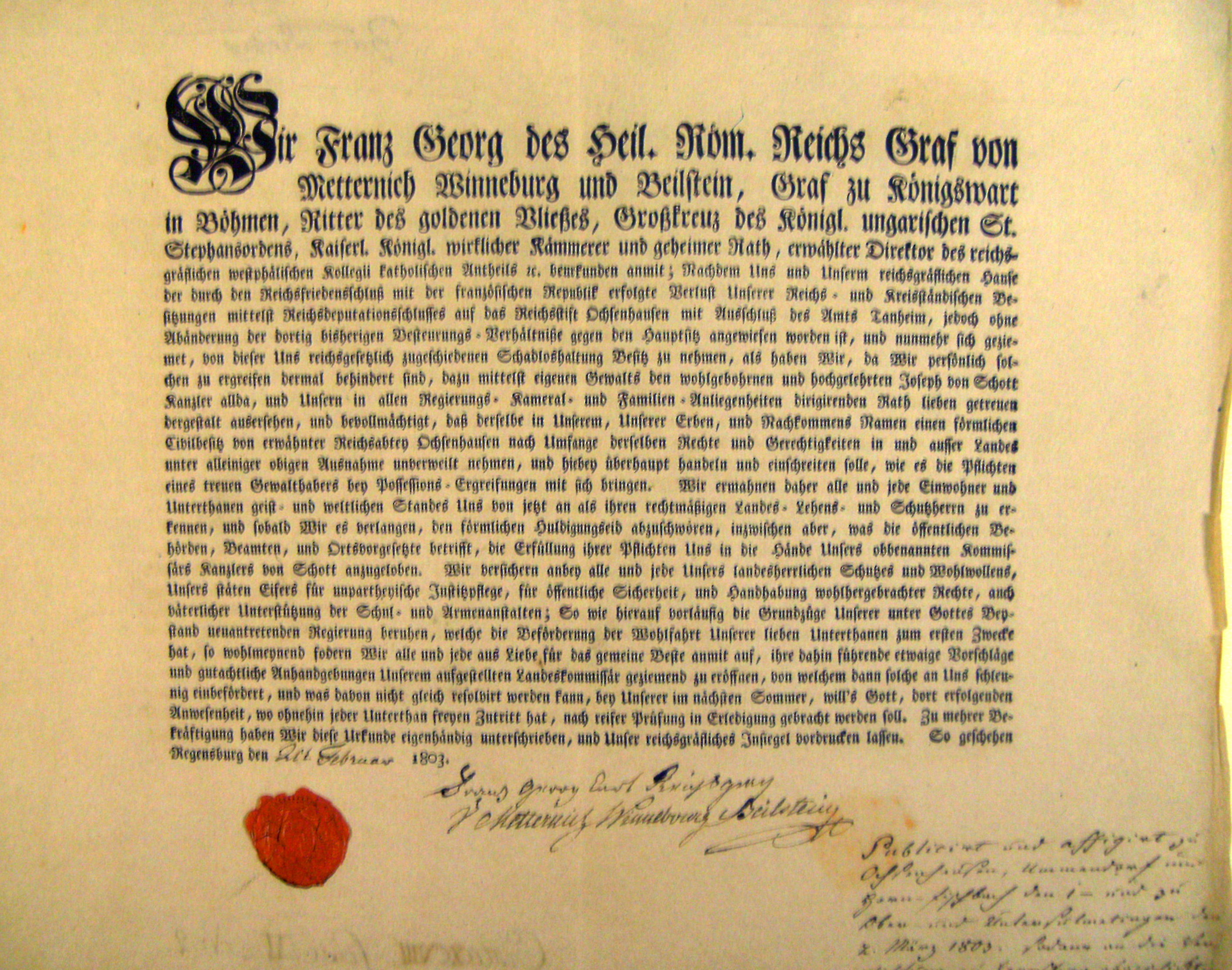 Deed of the Reichsdeputation dated February 1803 granting ownership of the secularized abbey of Ochsenhausen in Upper Swabia to Count Georg Karl von Metternich, father of Klemens von Metternich, who had lost his two lordships of Winneburg and Bilstein on the banks of the Mosel River when France annexed the left bank of the Rhine. Georg Karl von Metternich was also raised to the status of prince.